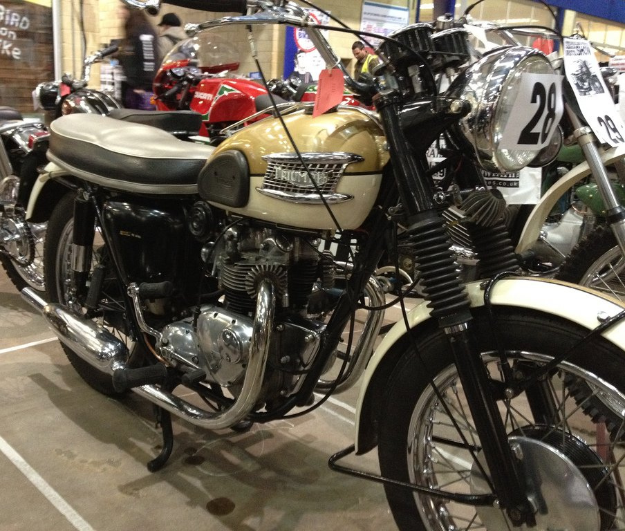 350cc sports version of Edward Turner's smallest unit twin engine